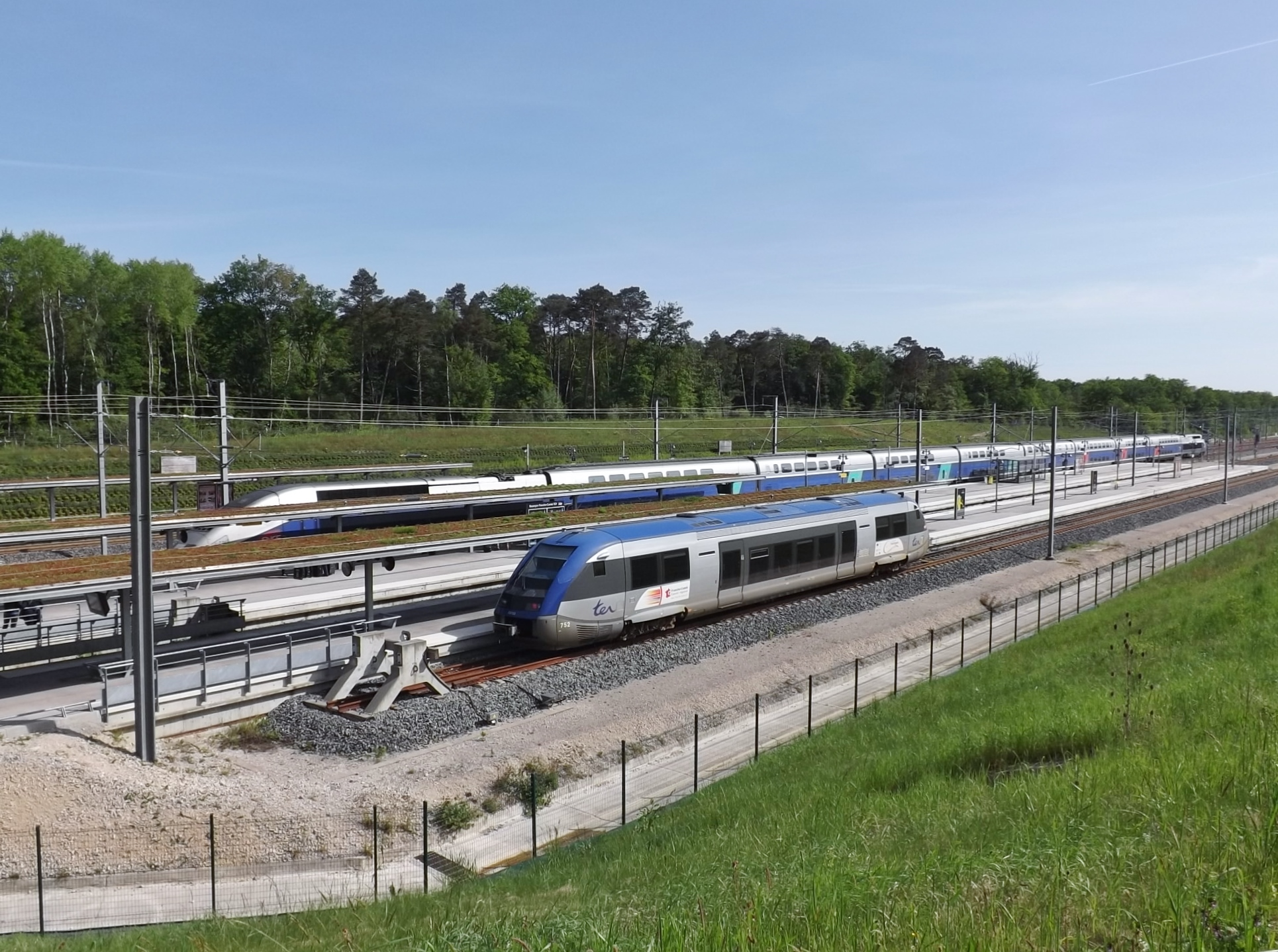 Sight, at Besançon-TGV railway station, of a French commuter train arrived from Besançon (foreground), with passengers to take the TGV bound for Paris (background), in the department of Doubs.